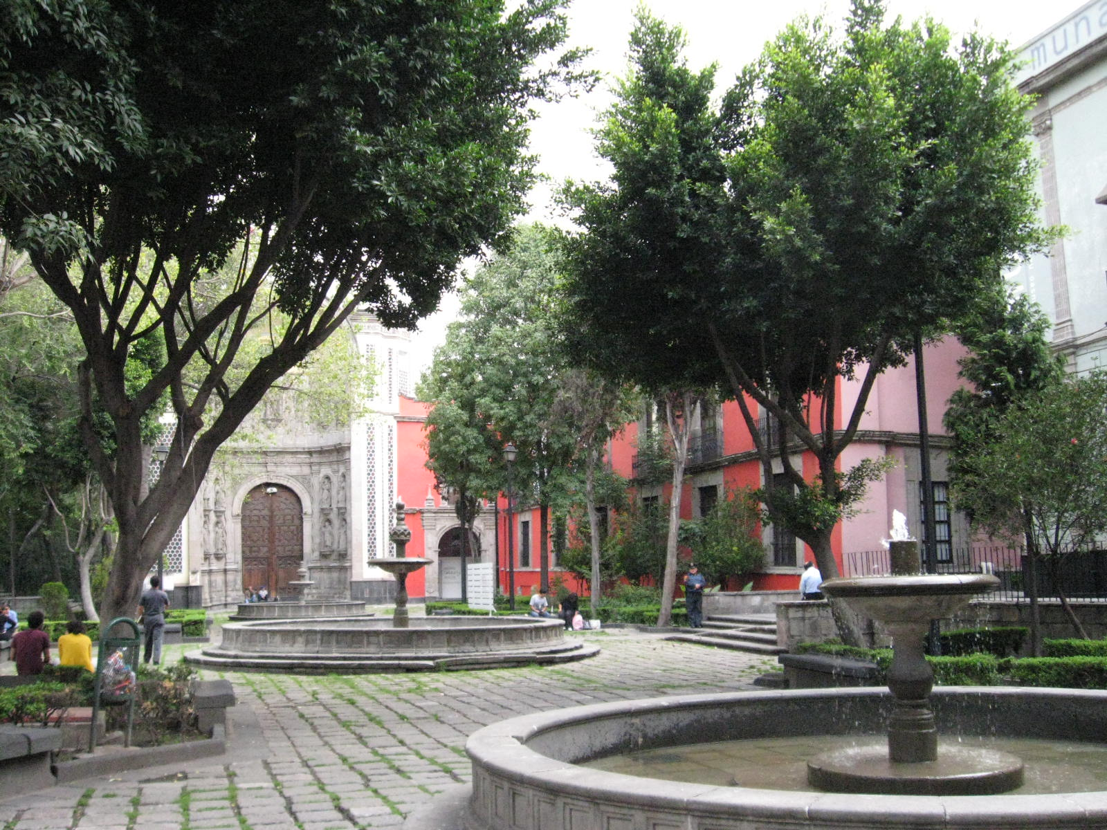 Courtyard of the Franz Mayer Museum (on right) and one of the entrances of the Parish of La Santa Vera Cruz de San Juan de Dios Church, both located on Hidalgo Street in the Centro of Mexico City just north of the Palace of Fine Arts.